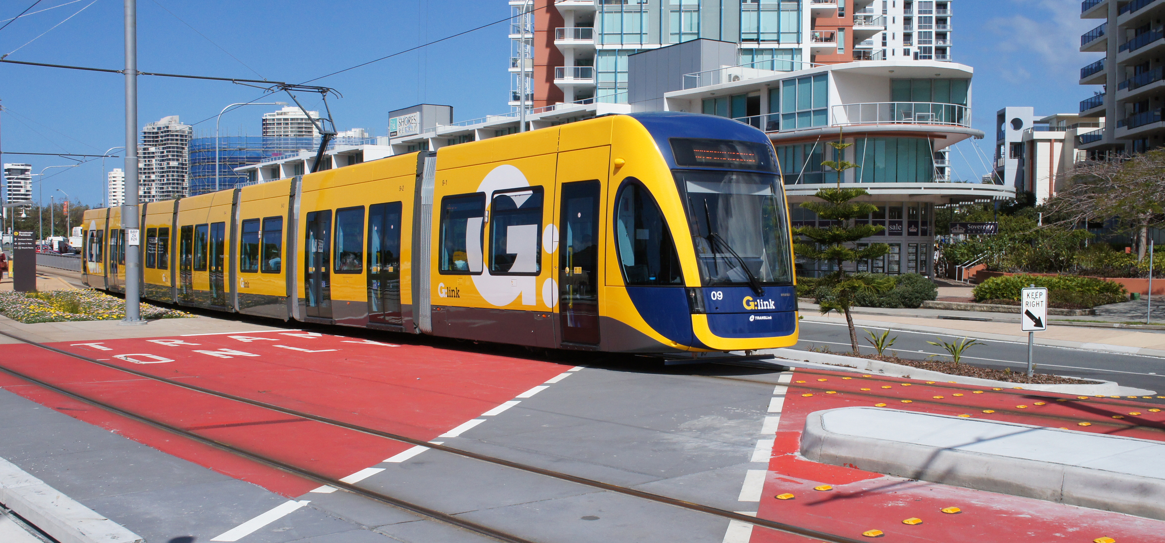 Tram leaving Broadwater Parklands on the Gold Coast Light Rail.